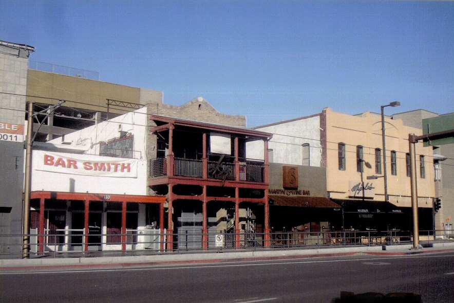 Historic Washington Street in downtown Phoenix, Arizona. Most of the buildings date back to the 1890s. The Fry building is listed in the National Register of Historic Places.